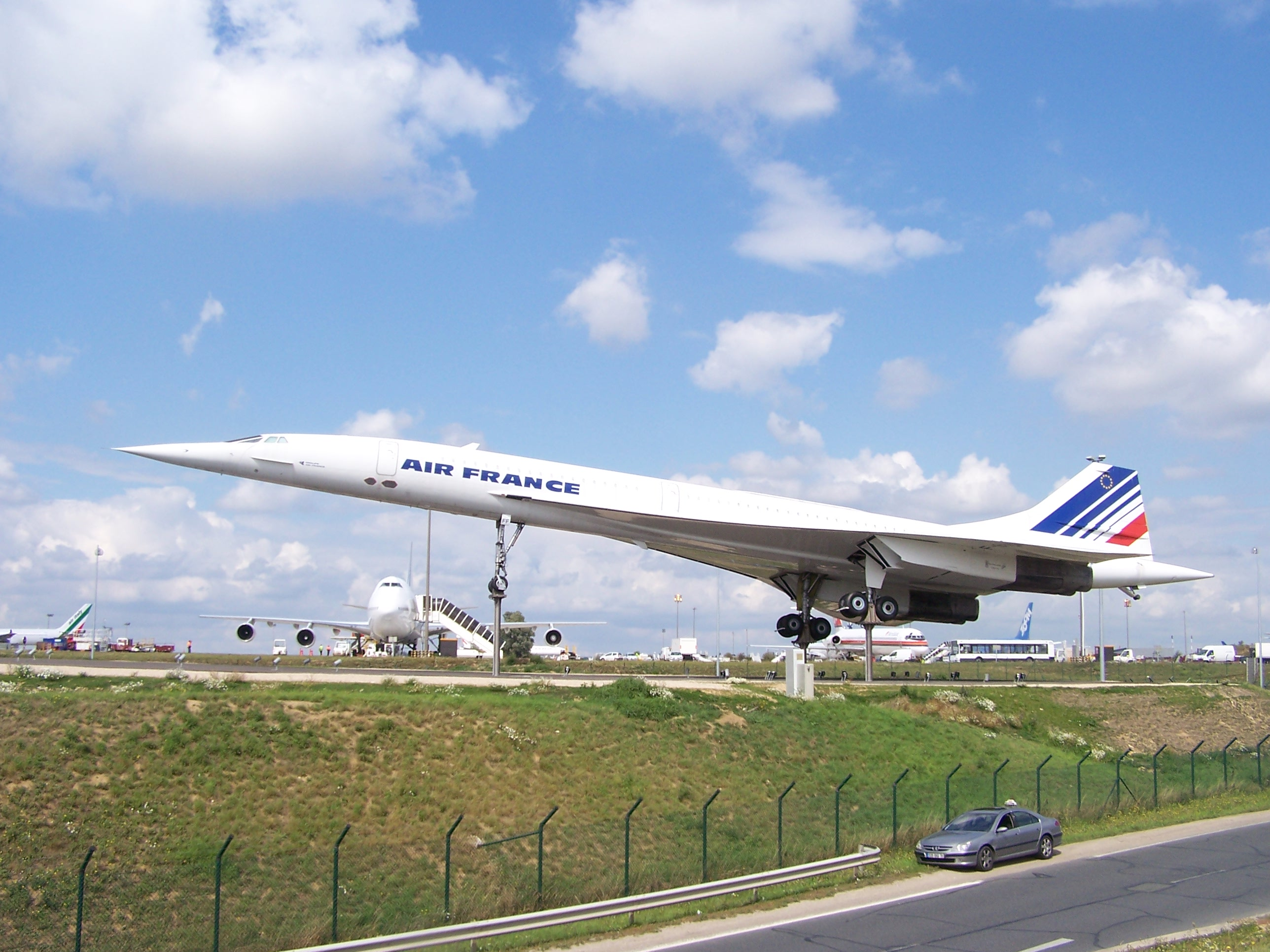 Air France Concorde presented at Paris-Charles de Gaulle Airport (France).